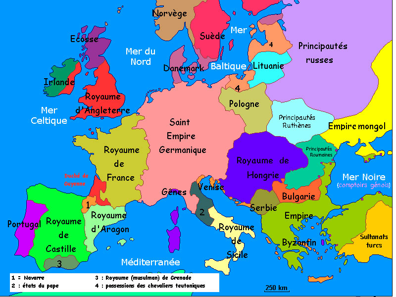 Early 14th-century Europe